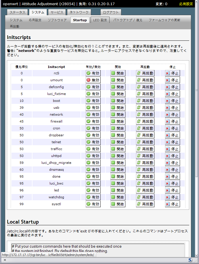 Screen shot of the LuCI web interface for OpenWrt; startup scripts selection; Japanese